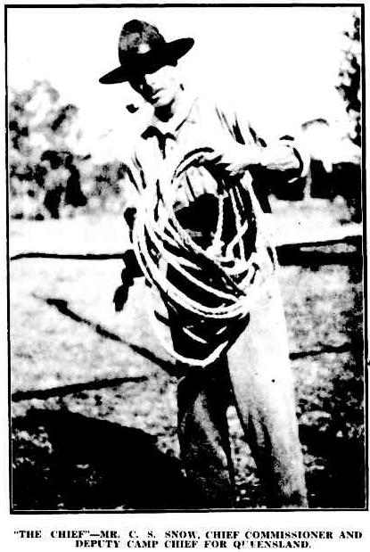 Newspaper clipping. Charles Smethurst SNOW, at Victoria Point, near Brisbane, Queensland, Australia. On the grounds of Eprapah. August 1928. Copyright has expired in Australia ( Boy Scouts' new training centre—Eprapah, near Victoria Point. The Queenslander (Brisbane, Qld. : 1866 - 1939), 9 August 1928, p. 38.